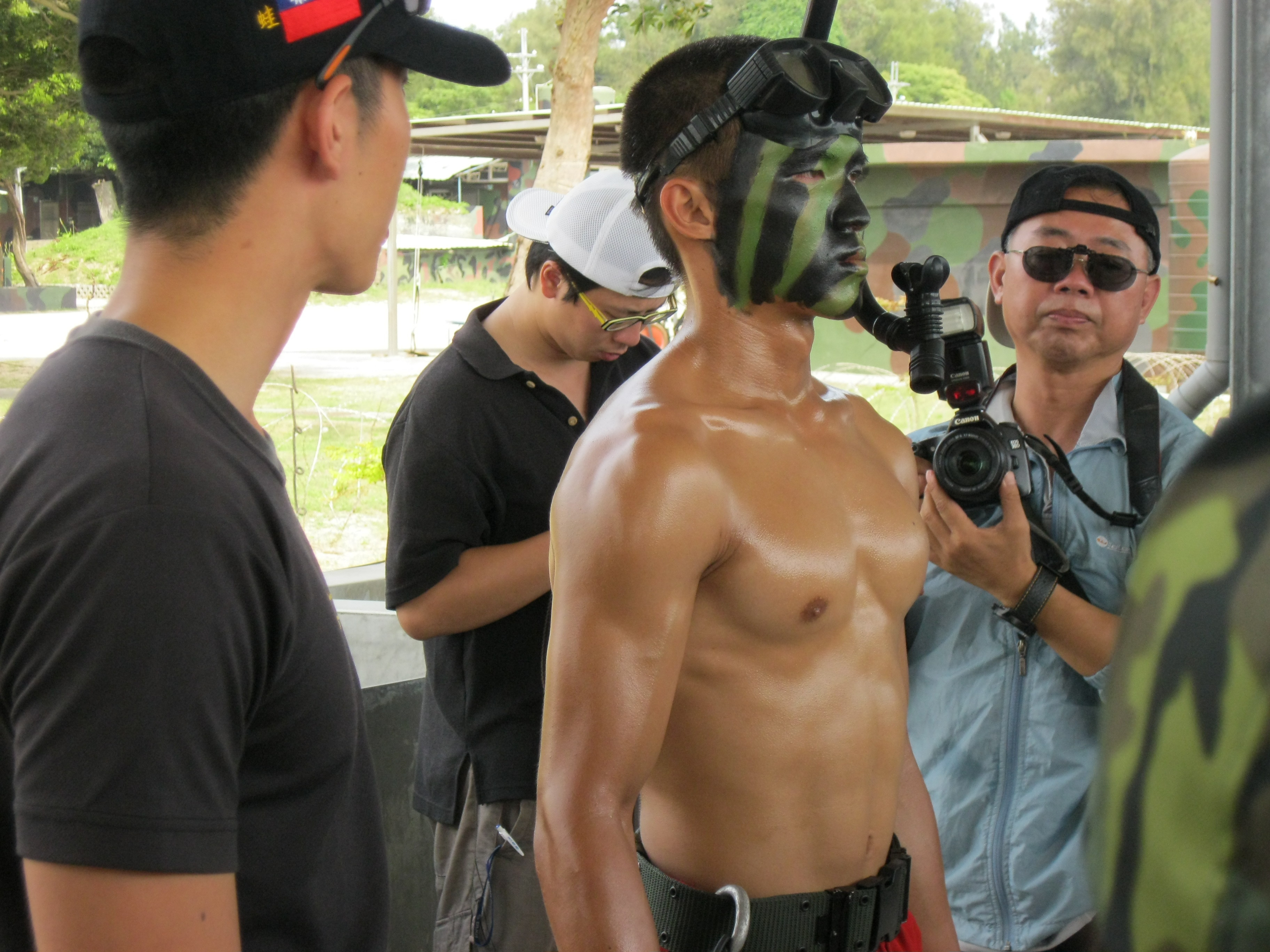 Army 101st Amphibious Reconnaissance Battalion (Taiwan)